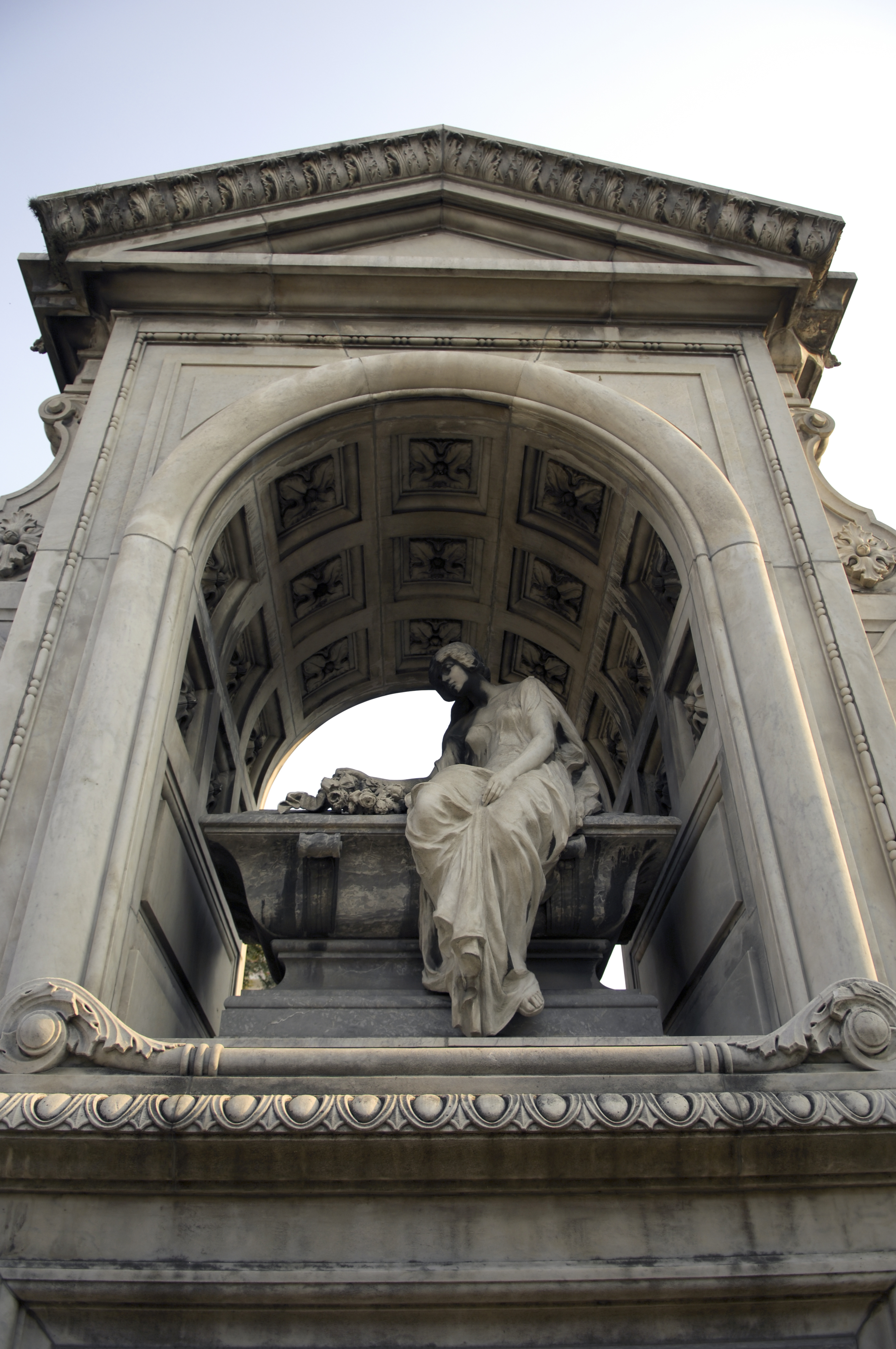 The Recoleta Cemetery (Spanish: Cementerio de la Recoleta) is located in the Recoleta neighborhood of Buenos Aires, Argentina.